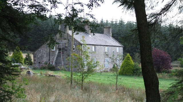 Churnsike Lodge Churnsike Lodge was a hunting lodge in Victorian times.